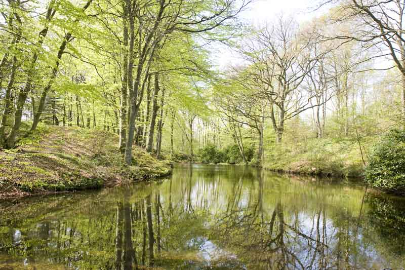 Small pond i the public garden, Nellemanns Have. The garden are situated close to Sæby in the northern part of Denmark, Vendsyssel.